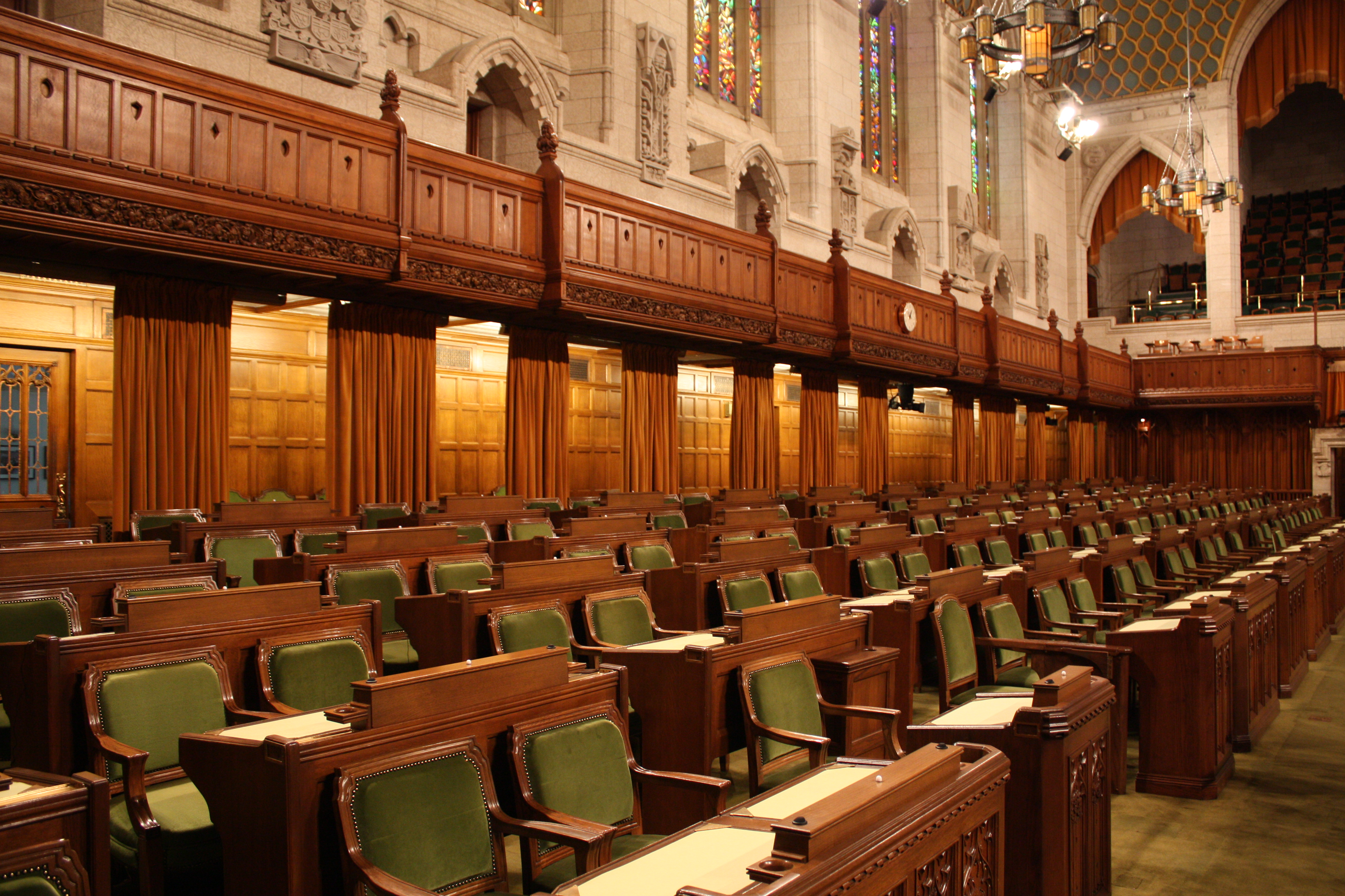 The seats of the governing party (to the Speaker's right) in the House of Commons of Canada